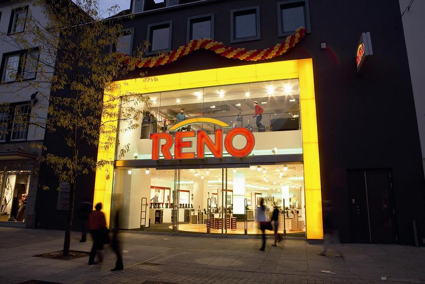 Flagshipstore Osnabrück